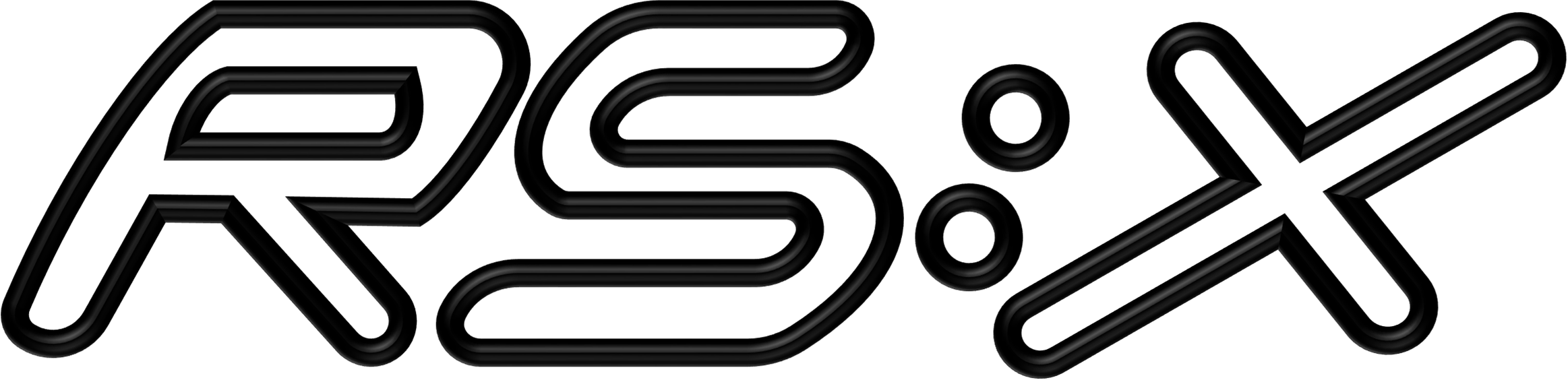 Sail insigna of the RS:X sailboard